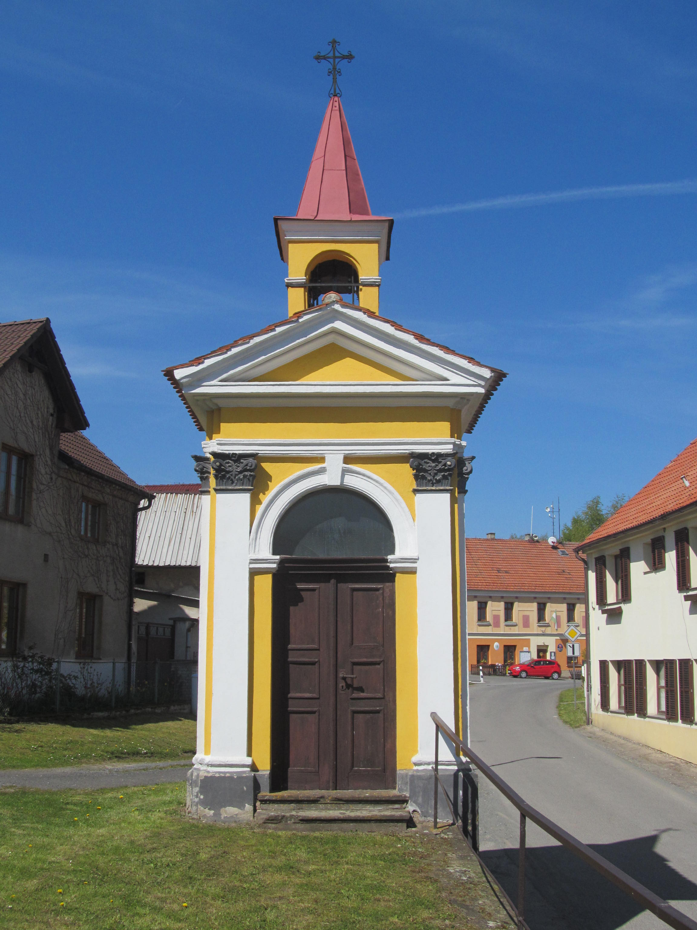 Chapel in Bílichov